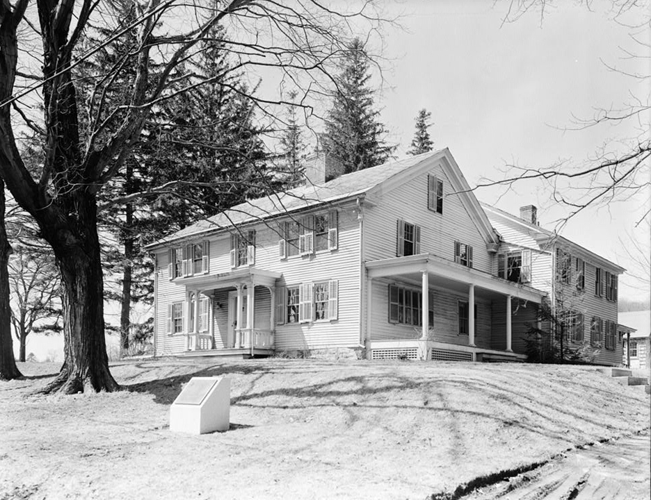 View from the northeast of Arrowhead, the residence of writer Herman Melville, at 780 Holmes Road, Pittsfield, Berkshire County, Massachusetts. Historic American Buildings Survey, Library of Congress, Washington, D. C.